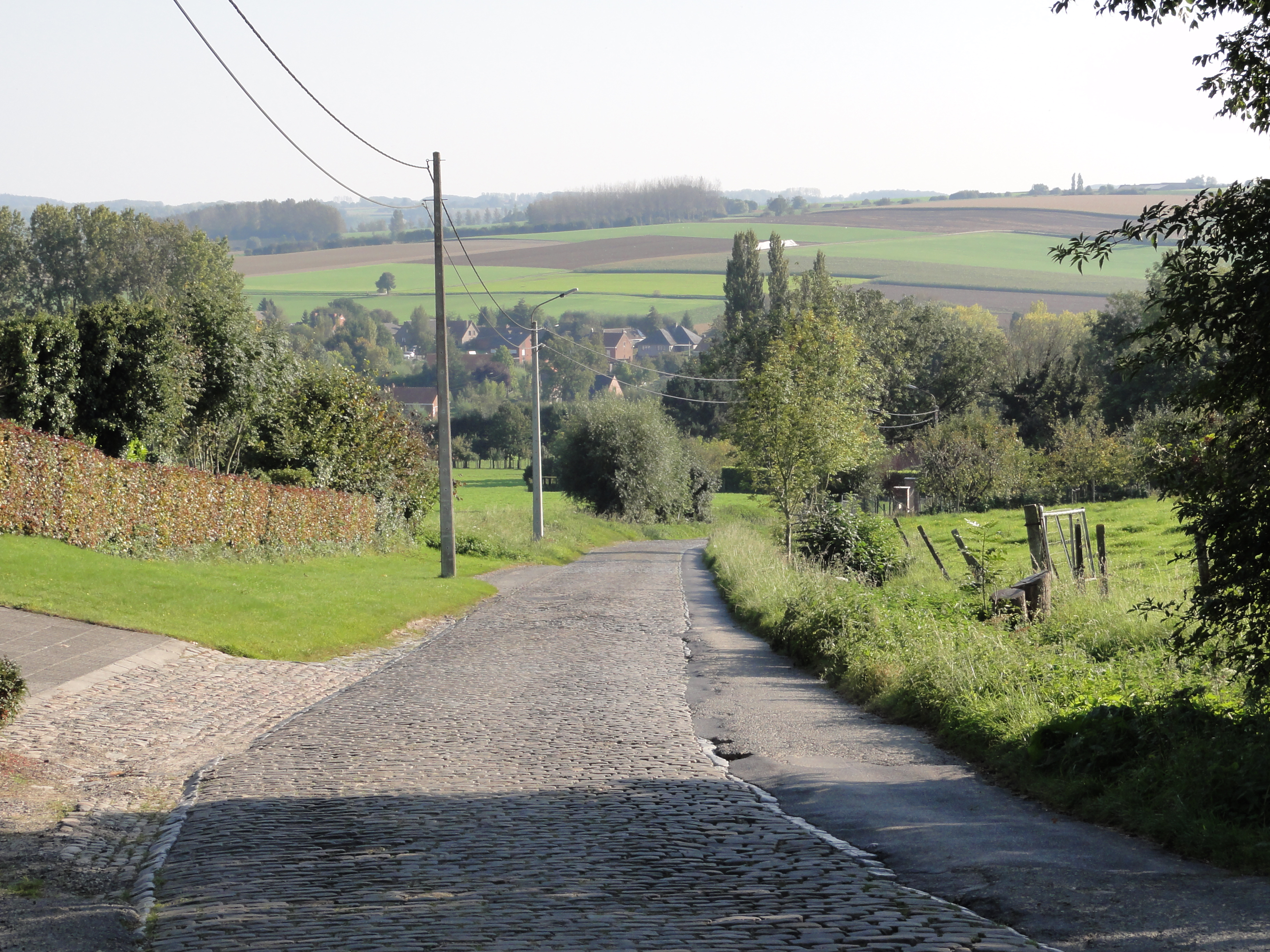 Eikenberg road and hill in Maarke. Maarke, Maarke-Kerkem, Maarkedal, East Flanders, Belgium